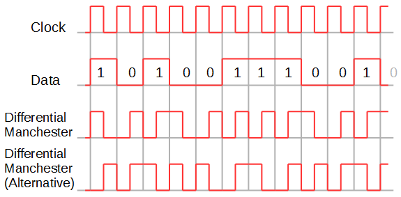 An example of Differential Manchester encoding, showing both alternatives.